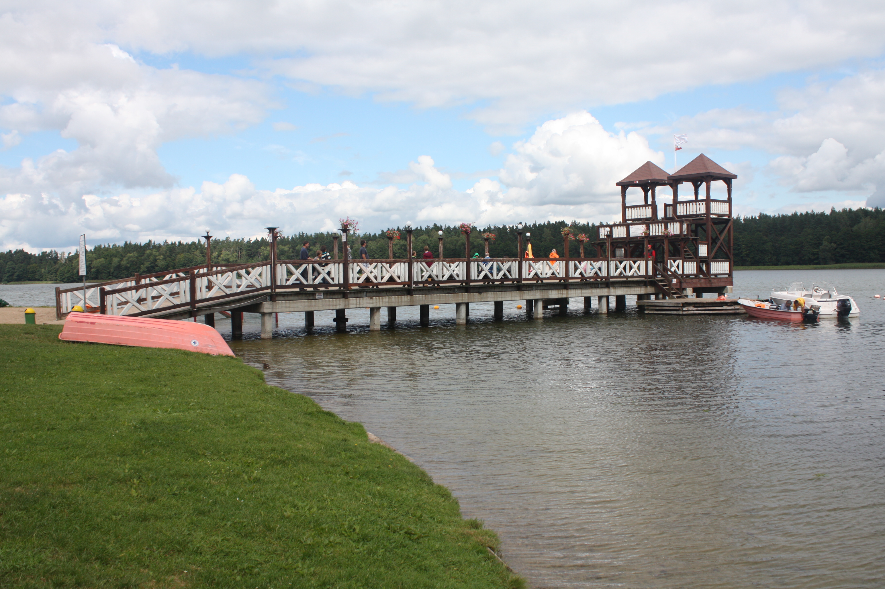 This photo of Warmian-Masurian Voivodeship was taken during Wikiexpedition 2012 set up by Wikimedia Polska Association. You can see all photographs in category Wikiekspedycja 2012. The making of this document was supported by Wikimedia Polska.